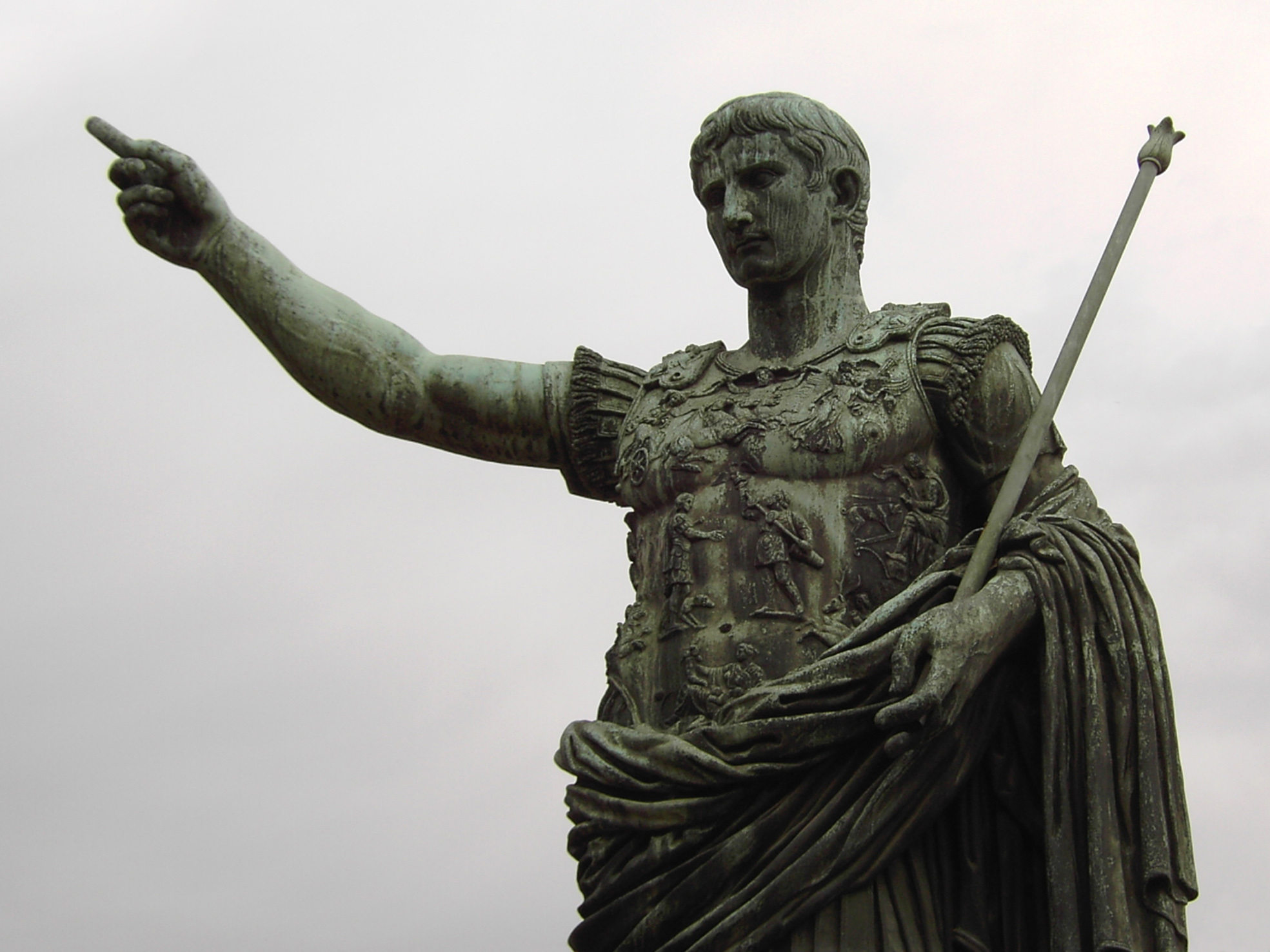 Rome, Via dei Fori Imperiali, bronze cast of the so-called "Prima Porta" statue of Augustus, erected during the fascist period in the 1930s.